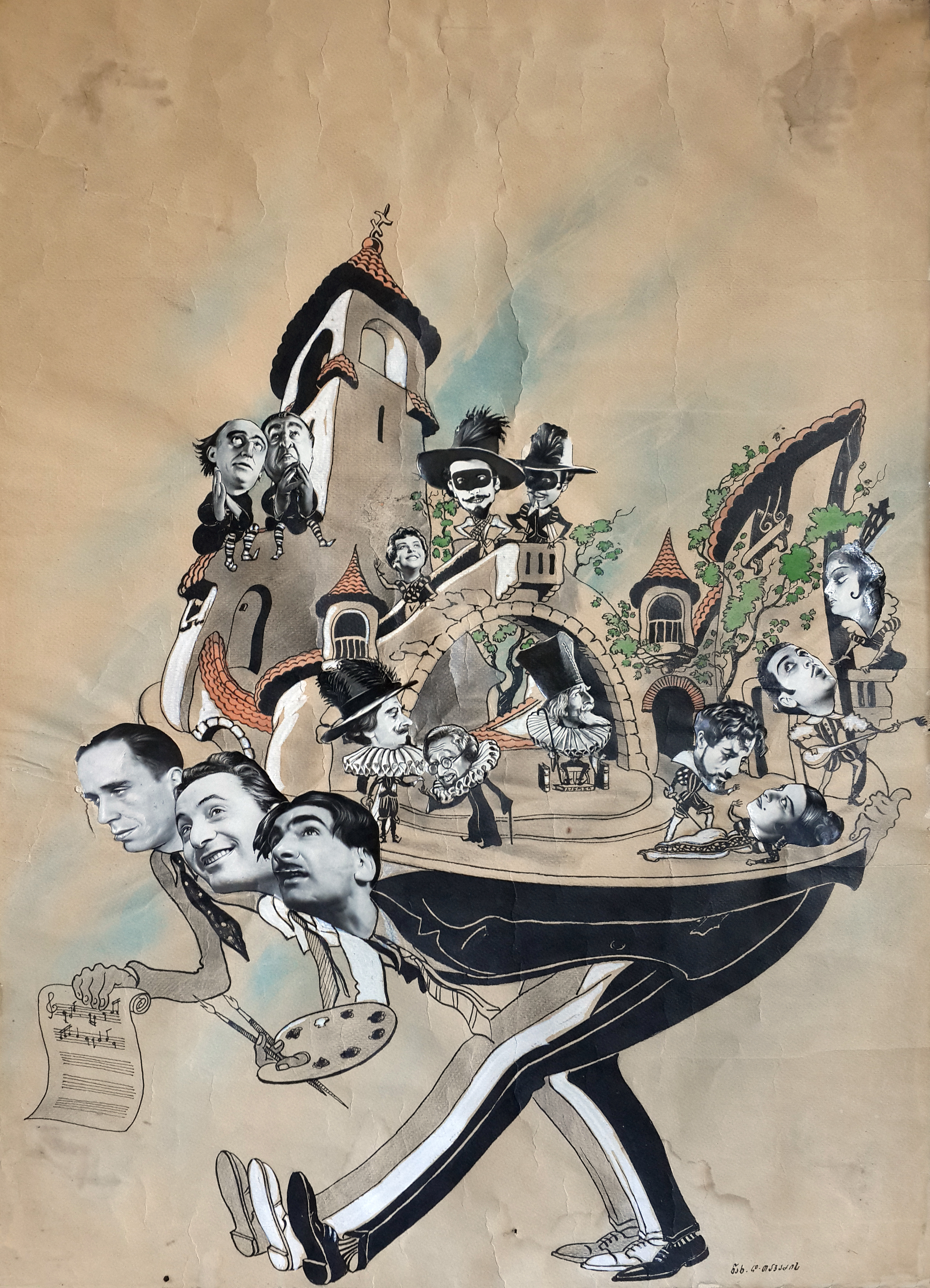 Author: Dimitri Tavadze; Year: 1954; Play: The Spanish Curate (Caricature)